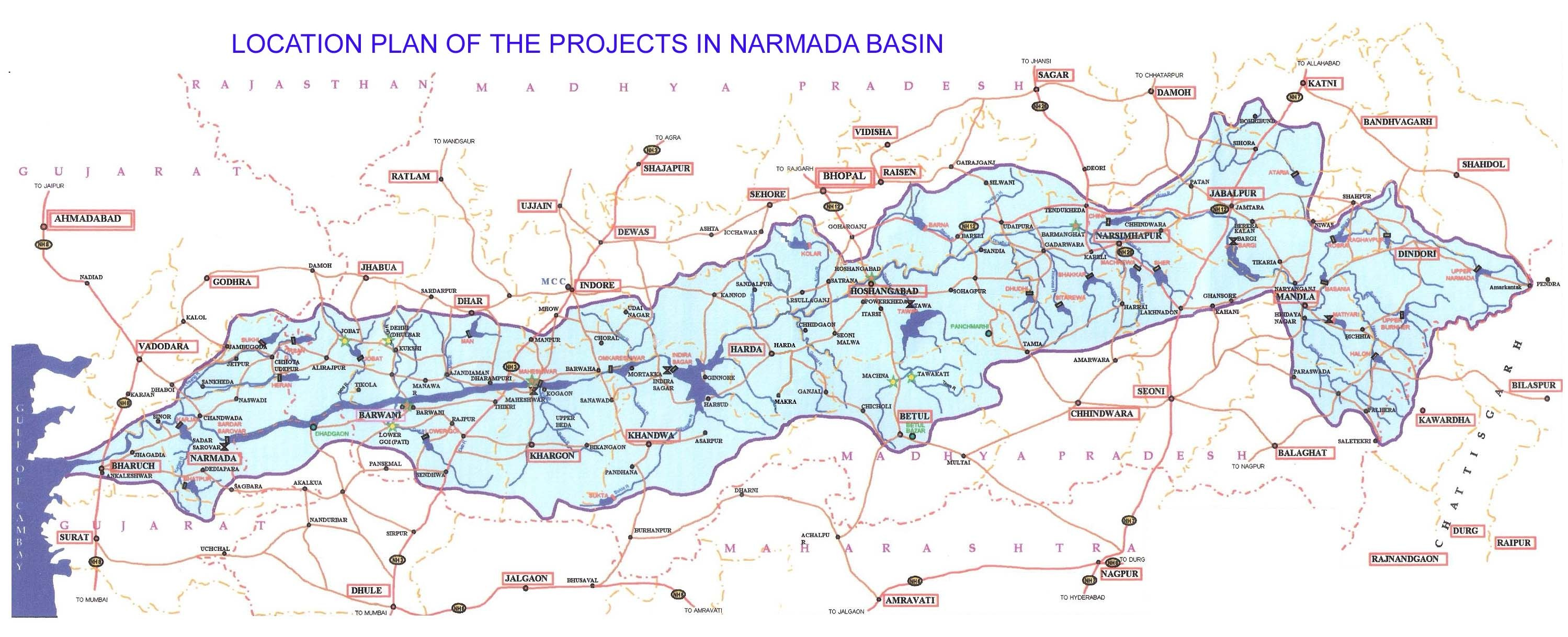 Plan of Water Resources schemes in the narmada Basin